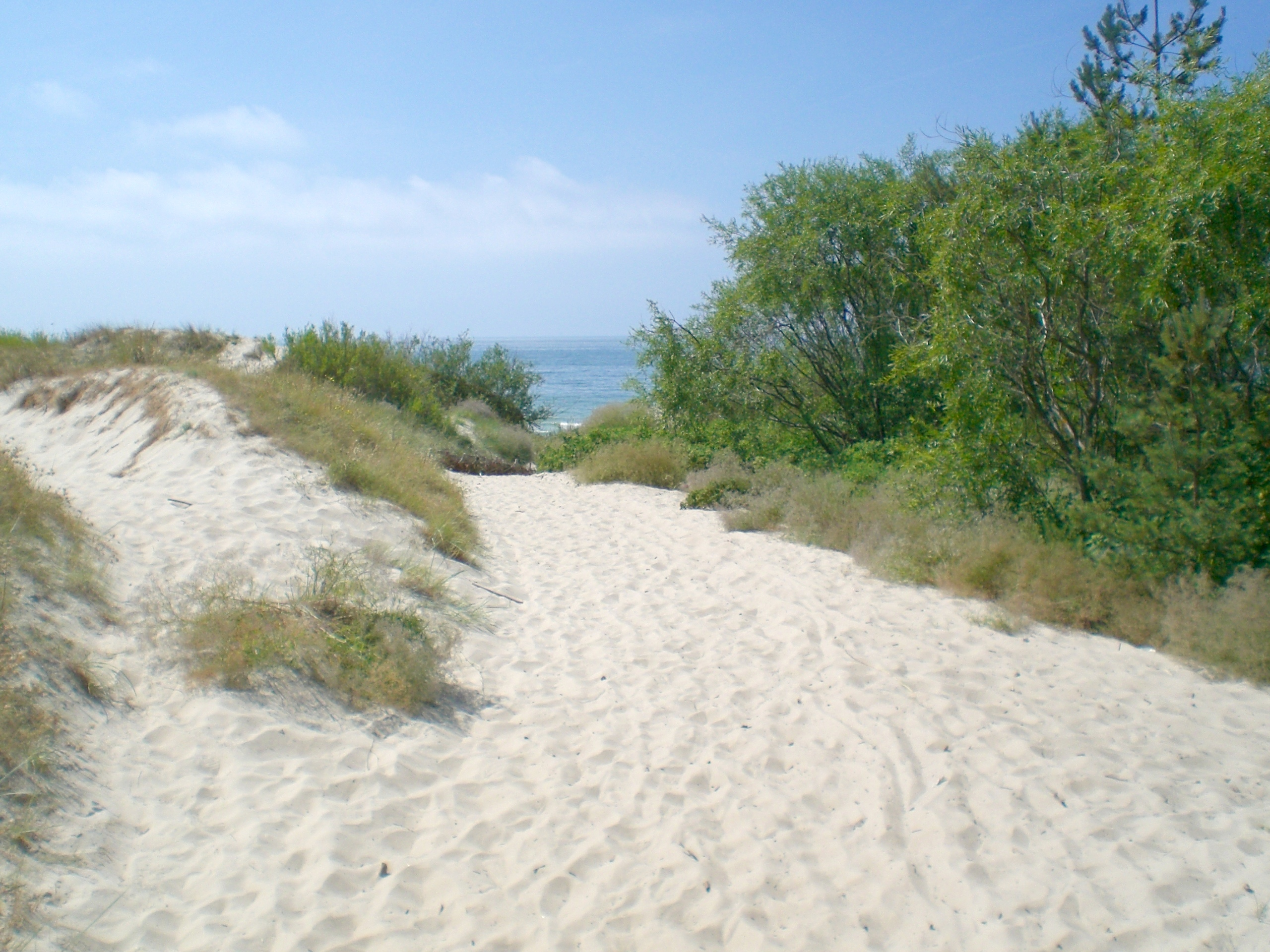 A path in the dunes of the Baltic Sea resort Palanga (Lithuania)